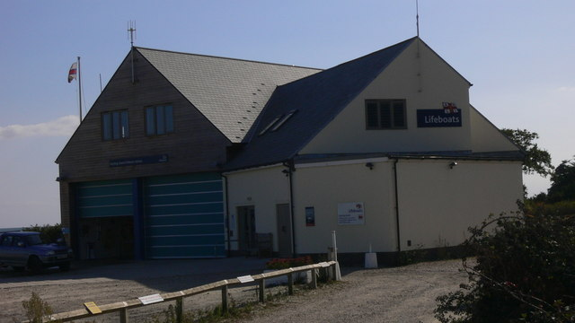 Lifeboat Station on Hayling Island I found this a friendly place and it has an interesting little museum.